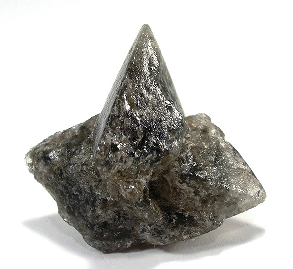 Thenardite Locality: Soda Lake, Carrizo Plain, San Luis Obispo County, California, USA (Locality at ) Size: miniature, 4.5 x 3.9 x 3.3 cm Thenardite A super floater crystal cluster of twinned thenardite, sharp as can be! Sprayed with a shellac to preserve it from dehydrating.